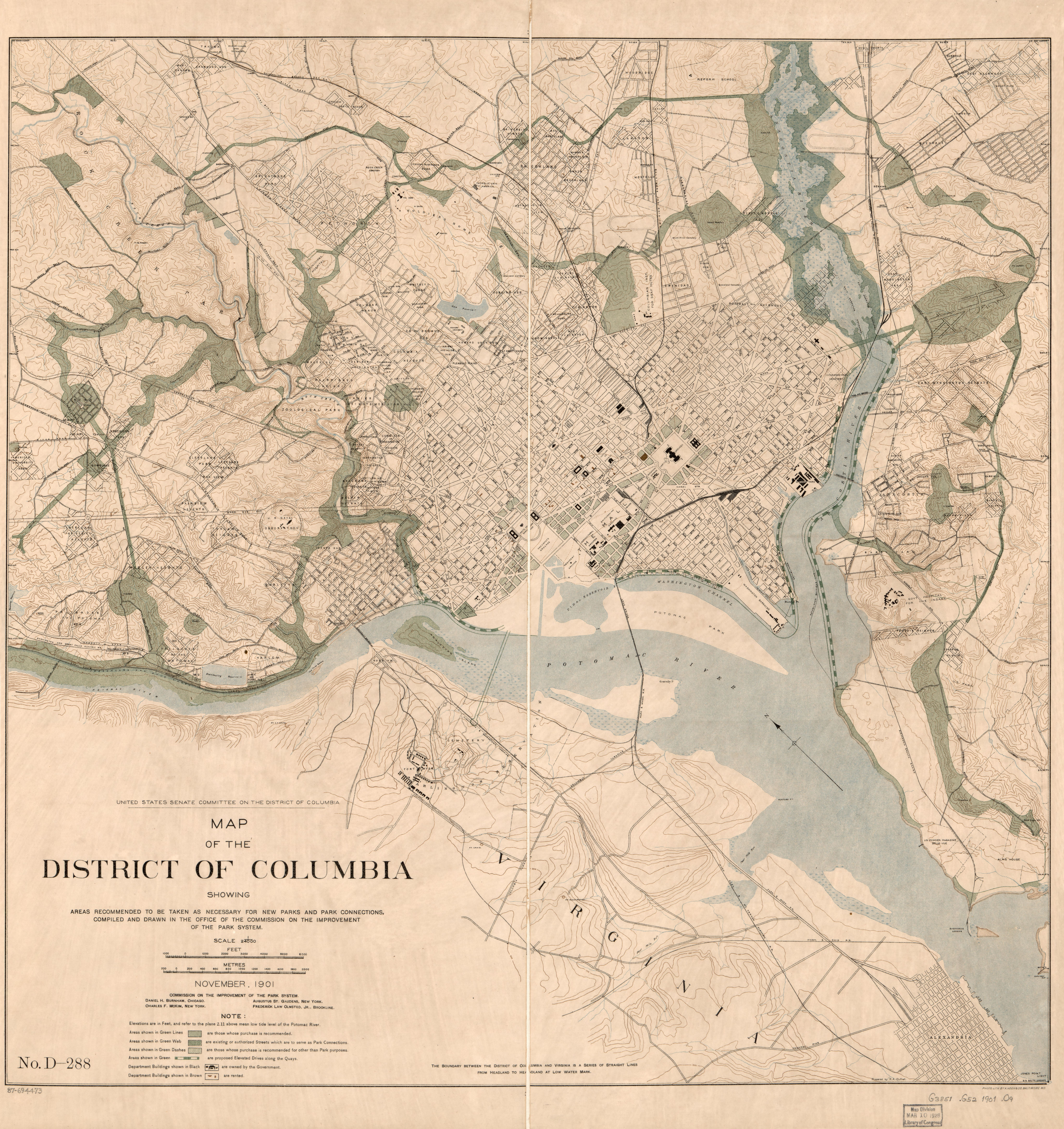 Shows planned parks, parkways, government lands, and existing government buildings. "November 1901." Relief shown by contours. Oriented with north toward the upper left. Includes note and directory of park commissioners. "No. D--288." LC copy halved and mounted on cloth backing. Available also through the Library of Congress Web site as a raster image. DCP